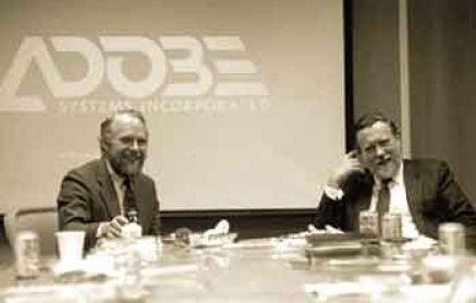 John Warnock (Adobe) and Charles Geschke in 1982 at the foundation of Adobe Systems.